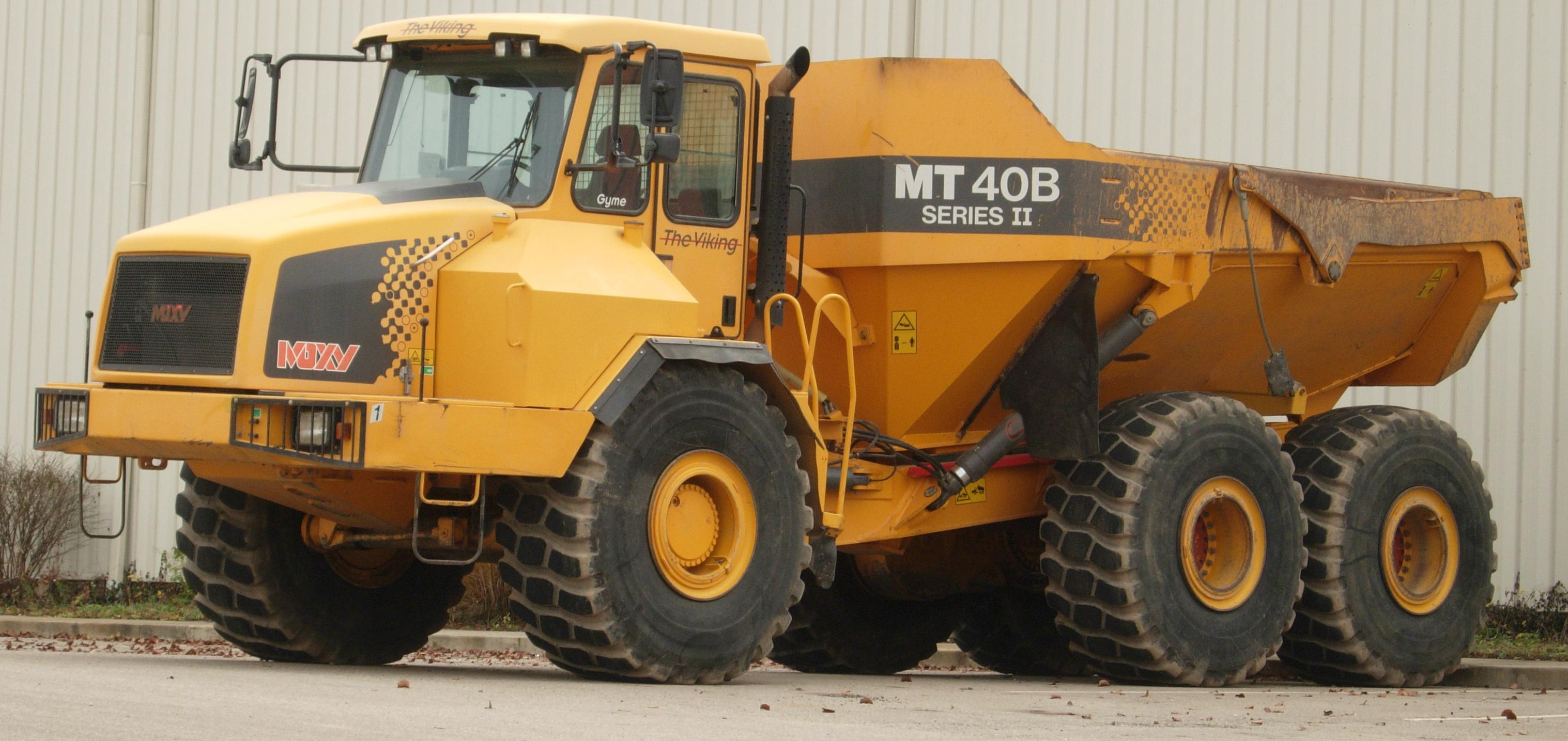 Moxy MT 40B series II dump truck in Cincinnati.